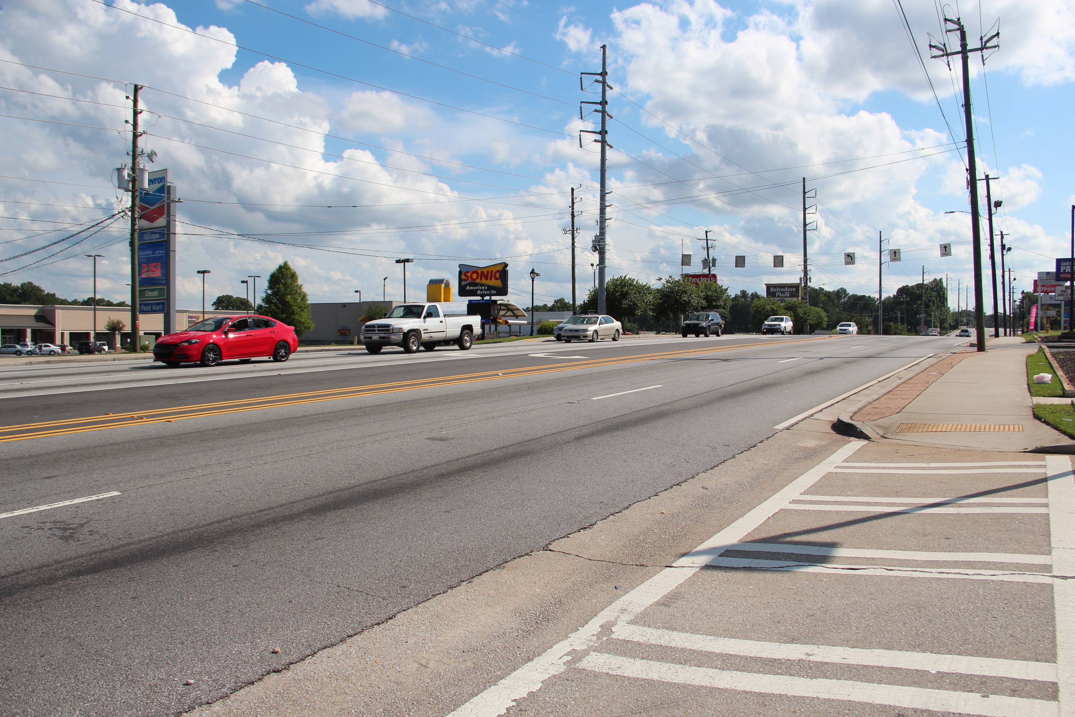 GA SR 154 in Belvedere Park, Georgia, June 2017